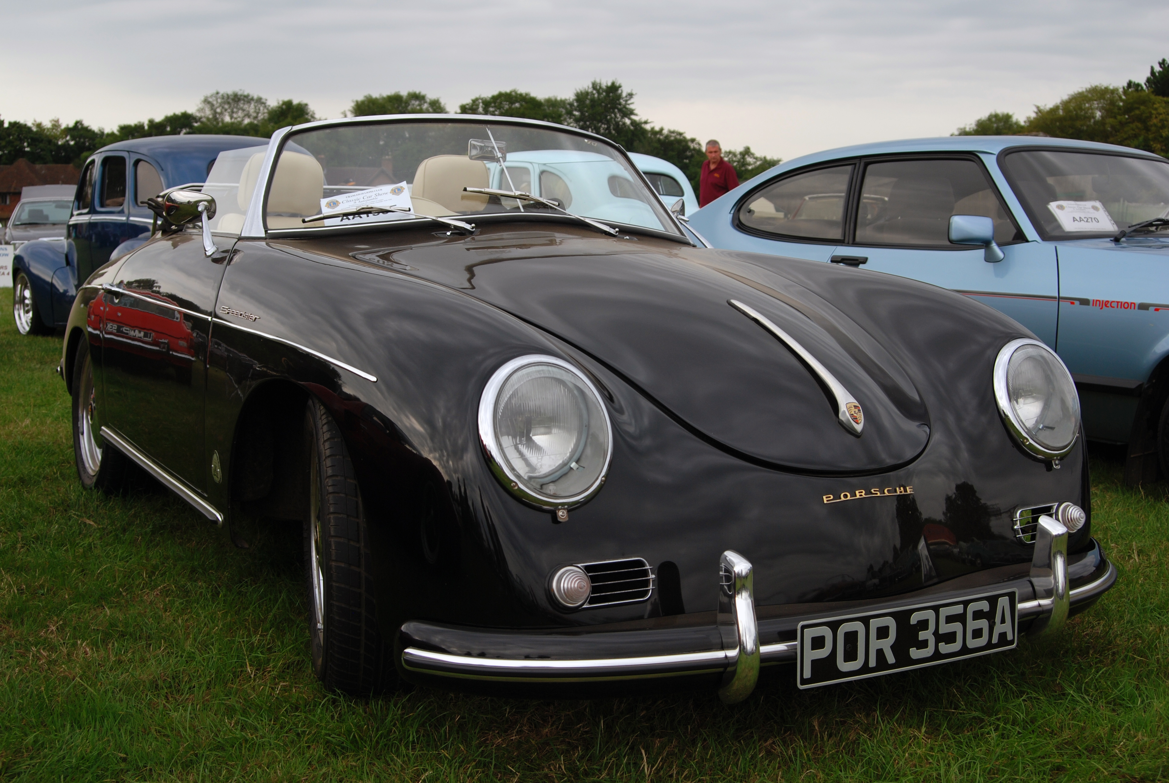 Cranleigh,Aug 2011